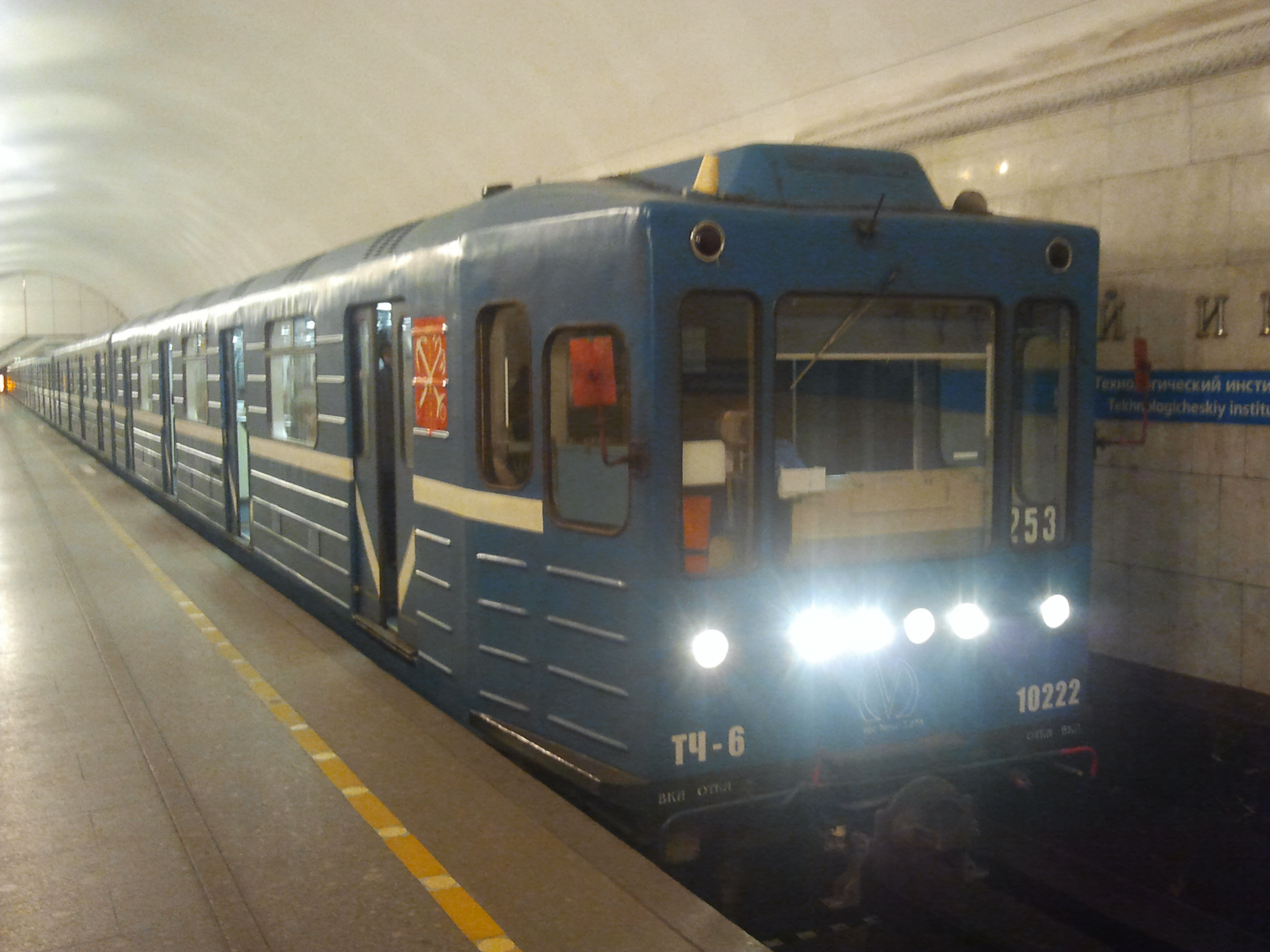 Метровагоны 81-540.1 - 81-541.1 "Боинг", 6 вагонов из 6-ти, единственный экземпляр